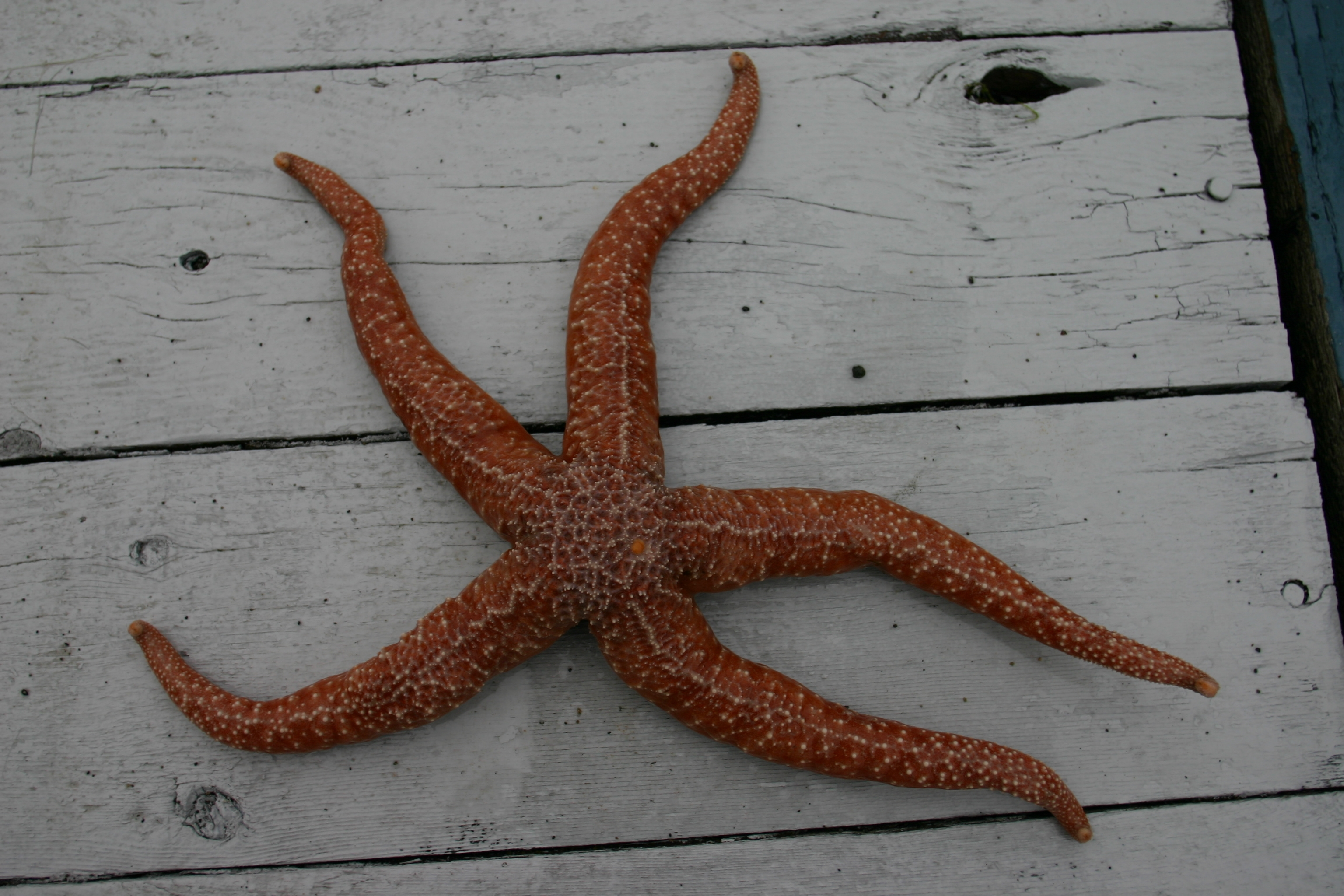 Evasterias troschelii, or mottled star, showing an orange color variation. Photographed on Vancouver Island, BC.